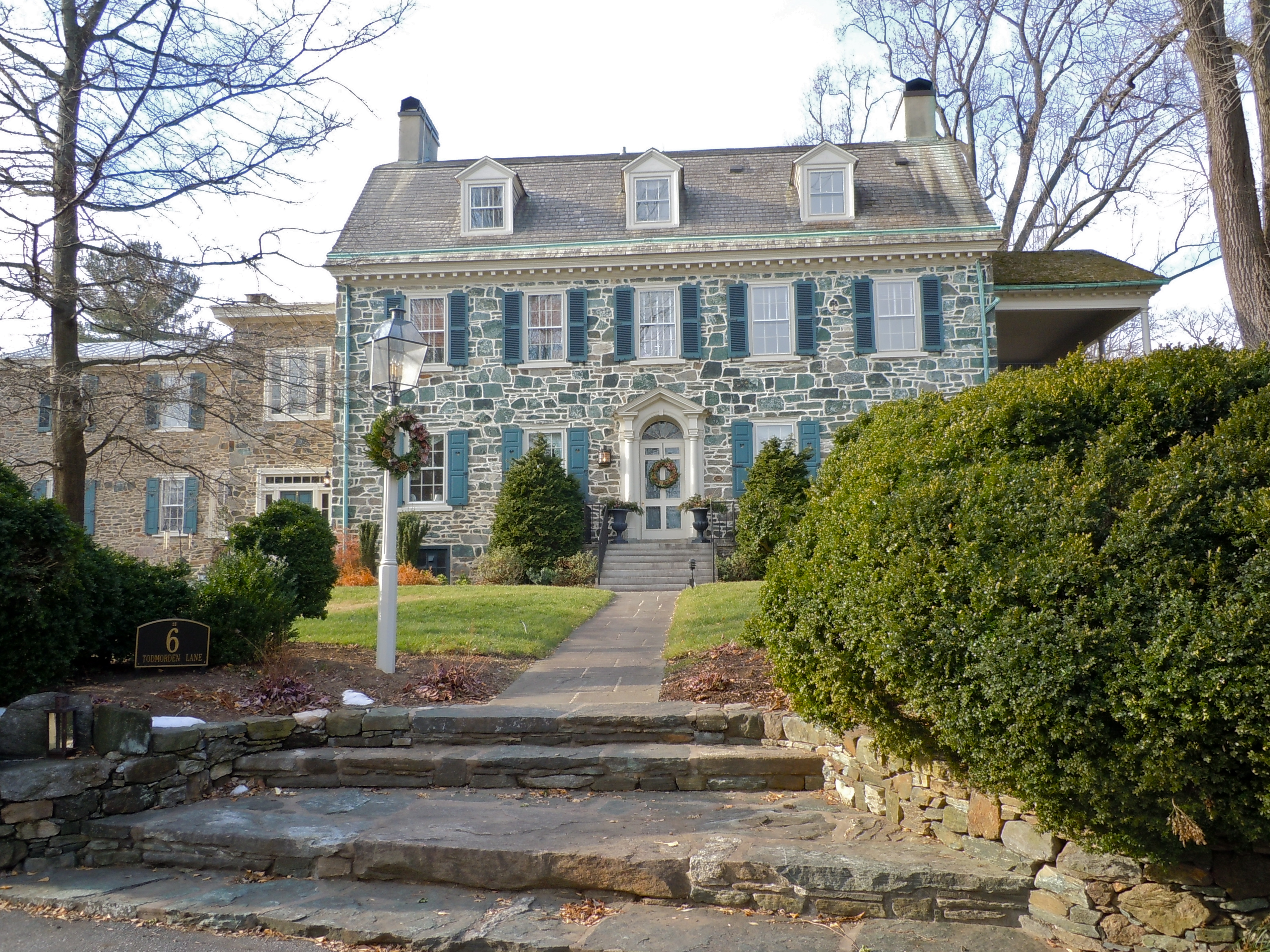 Todmorden Mansion in Rose Valley, Pennsylvania, in the Rose Valley Historic District on the NRHP since 2010. One of the older houses in the district. 1800s? On Todmorden Land, not Todmorden Road.